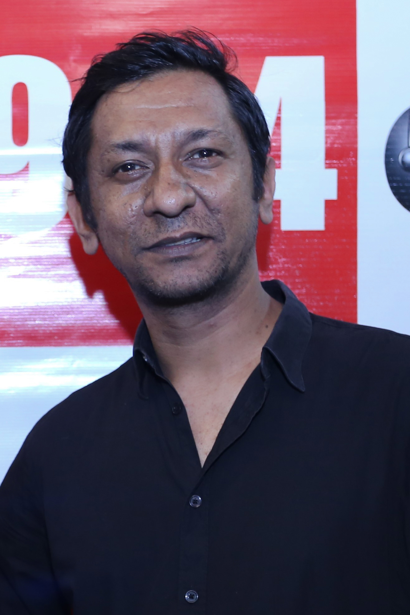 Tanzir Tuhin is a Bangladeshi versatile musician, singer-songwriter, actor, painter, and architect